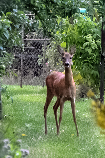 Roe deer in the allotment